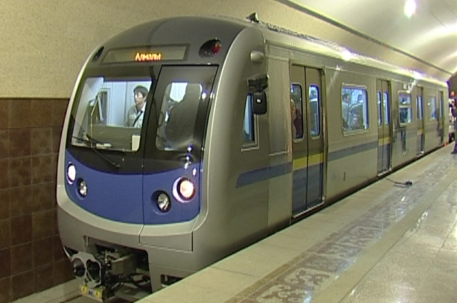 Hyundau Rotem produced train of Almaty Metro